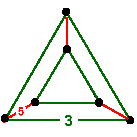 Rectified_600-cell vertex figure